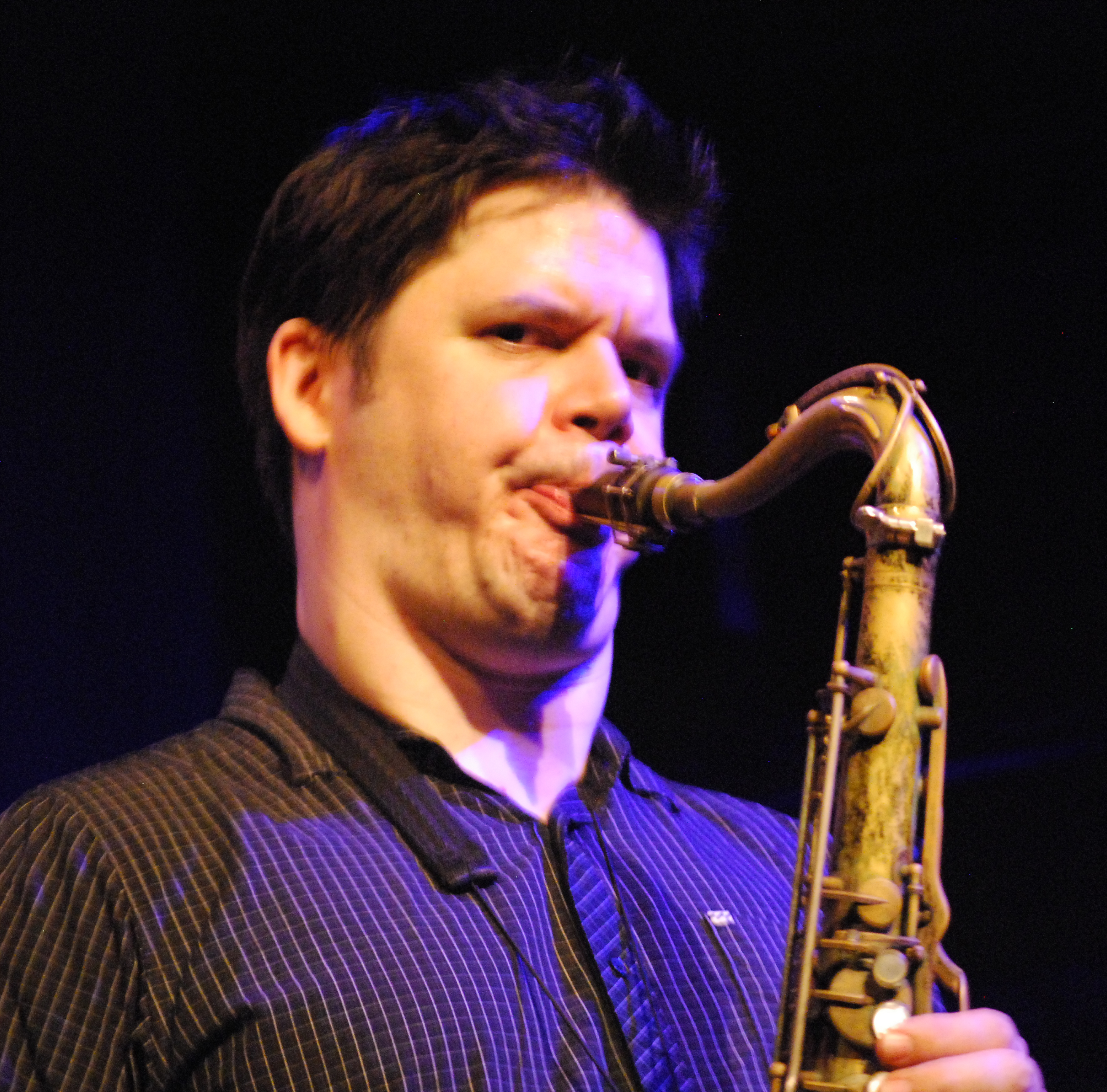 Seamus Blake, Concert with Oz Noy, Adam Nussbaum, Jay Anderson, Innsbruck 2011